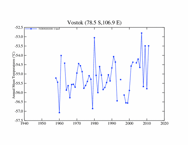 Climate graph of 1958 2008 air average temperatures of Vostok Station, Antarctica